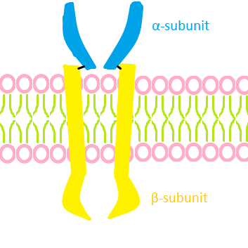 Rough graphic interpretation of an insulin receptor